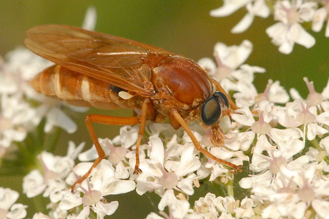 Coenomyia ferruginea from Commanster, Belgian High Ardennes .